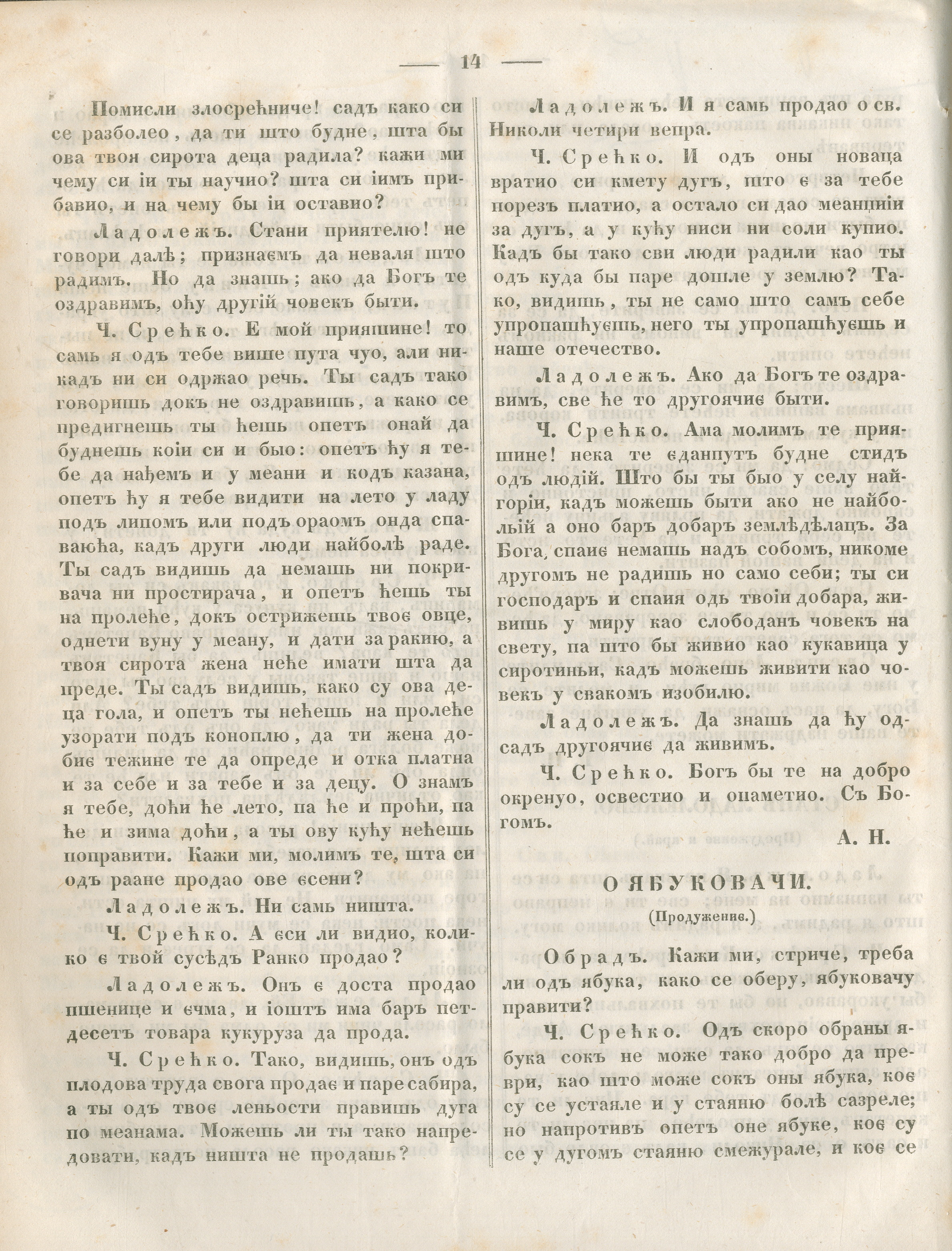 Serbian magazine Čiča Srećkov list, Belgrade, number 2, 13. January, page 14, 1848. Srpski (latinica): Časopis Čiča Srećkov list, Beograd, broj 2, 13. Januar, strana 14, 1848, članak o ladoležima.